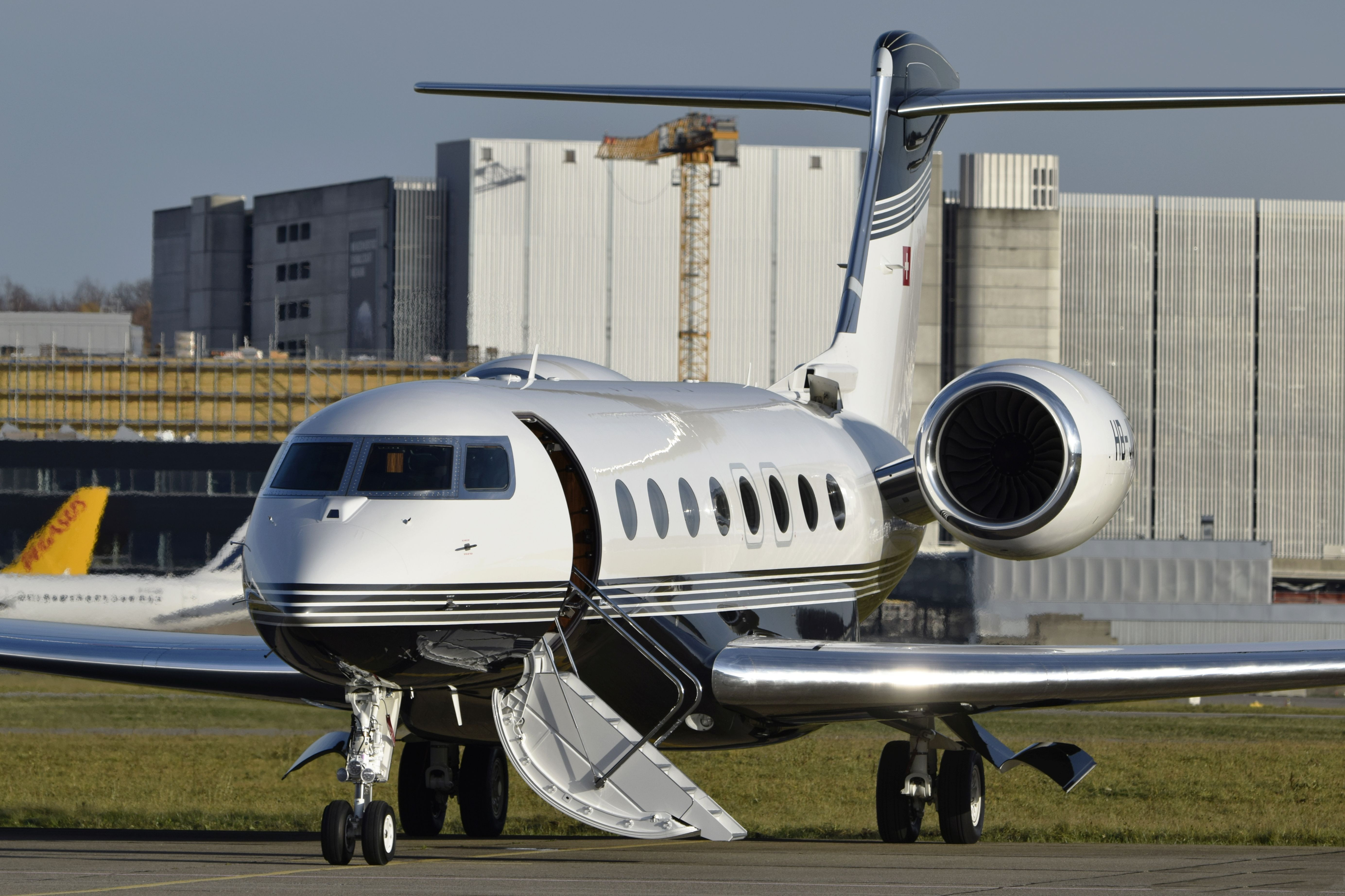 A Swiss Jet AG Gulfstream GVI (G650) standing on the whiskies parking area in Zürich